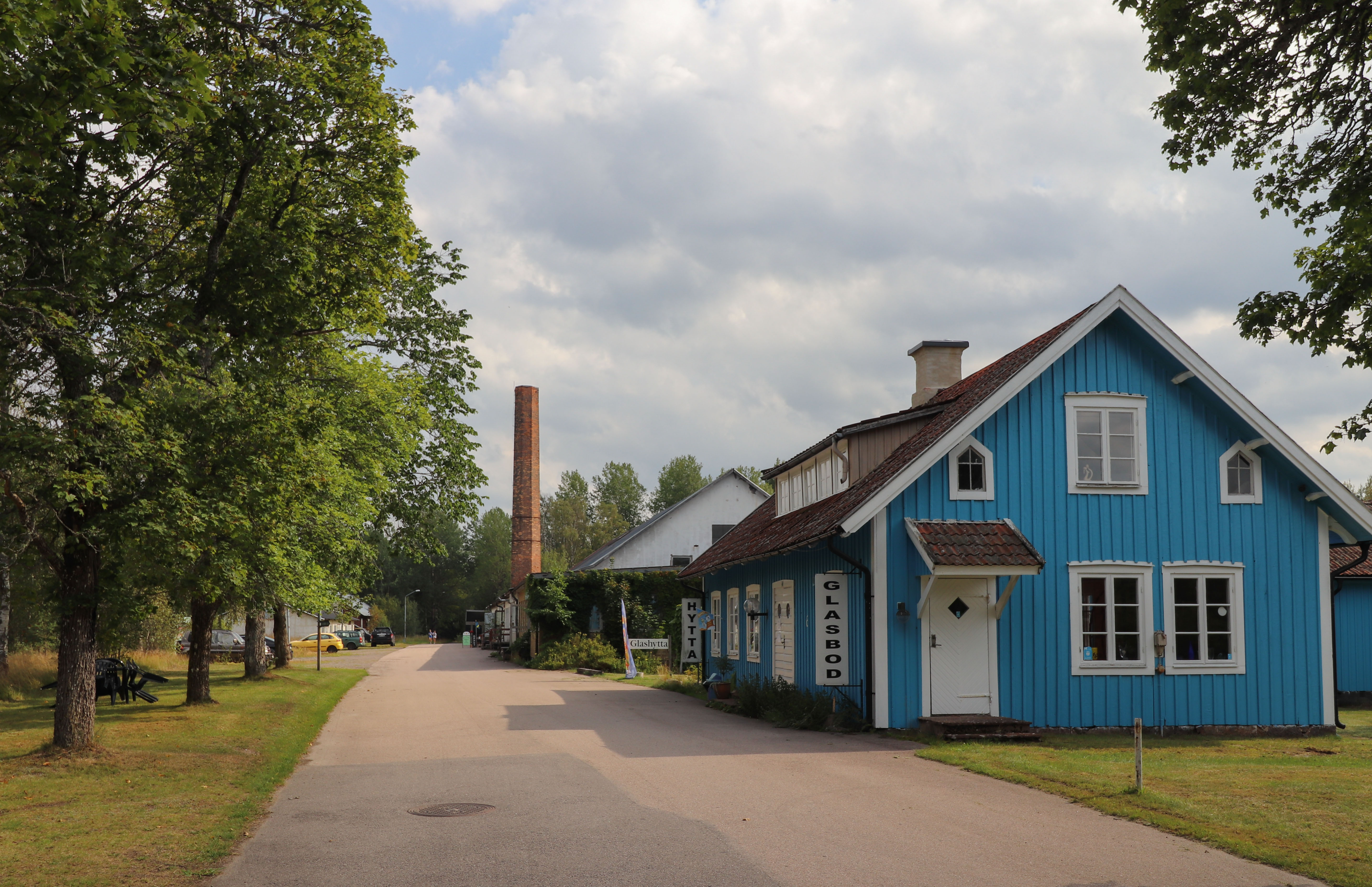 Gullaskrufs glassworks